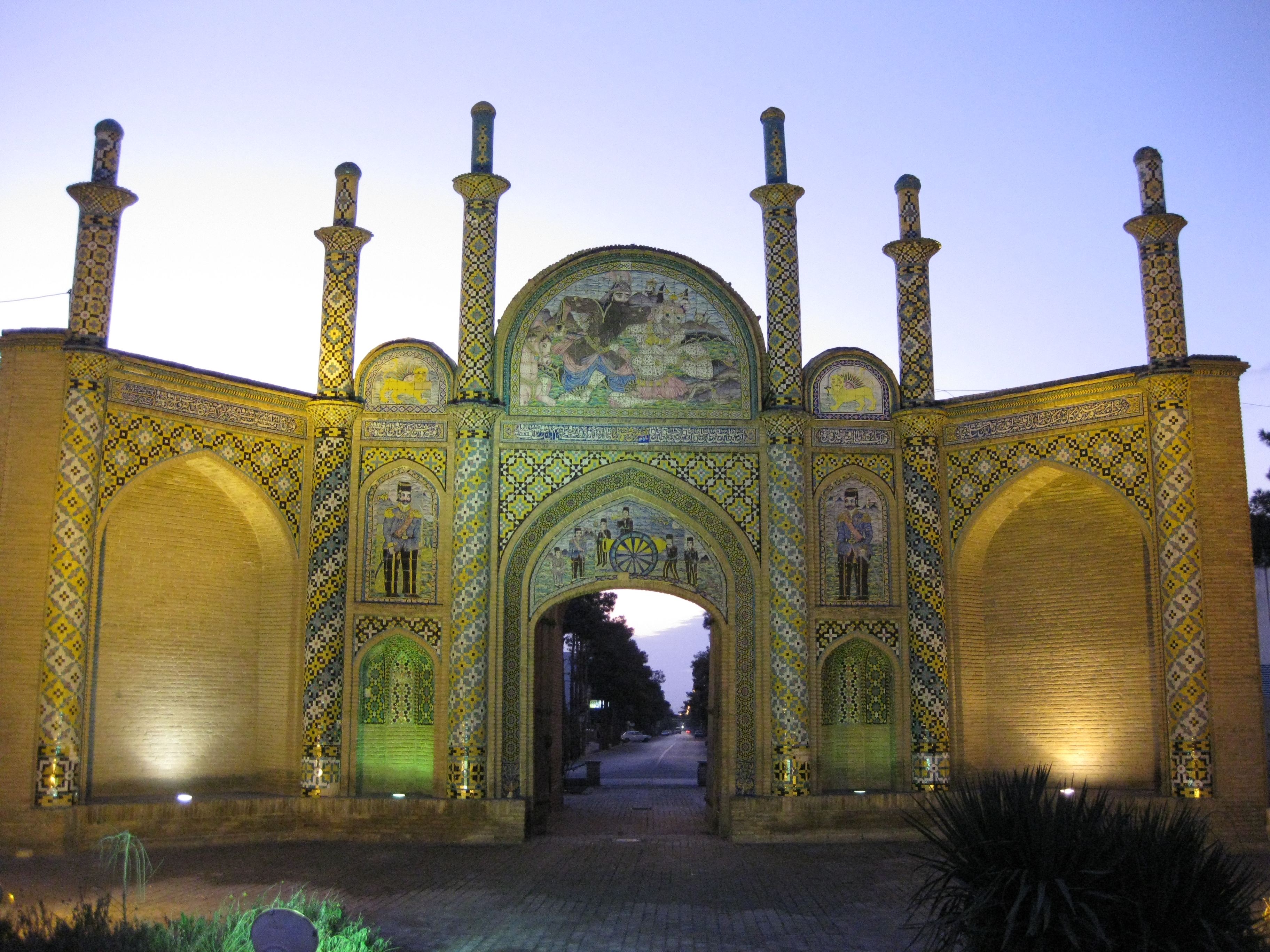 Darvazeye Arge Semnan (Gate of Semnan castle - before the destruction of castle it was it's gate), Iran.